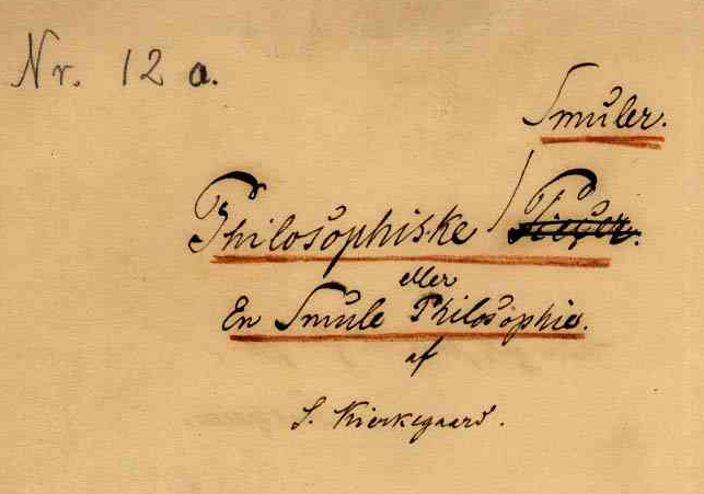 Søren Kierkegaard's manuscript of Philosophical Fragments. The text reads: "Philosophical Fragments or a Fragment of Philosophy by S. Kierkegaard"